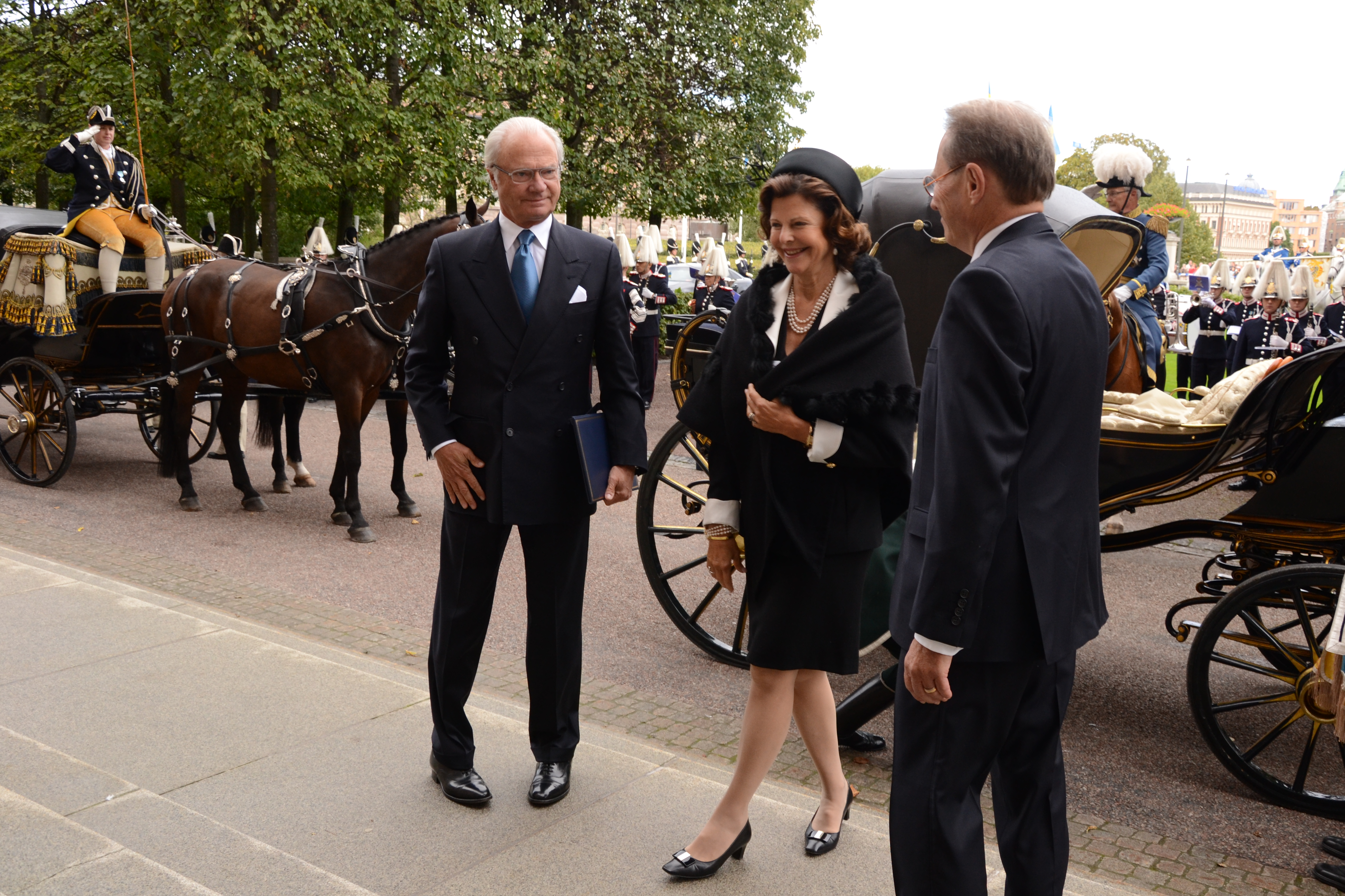 Opening of the swedish parliament, 15-sep-2011